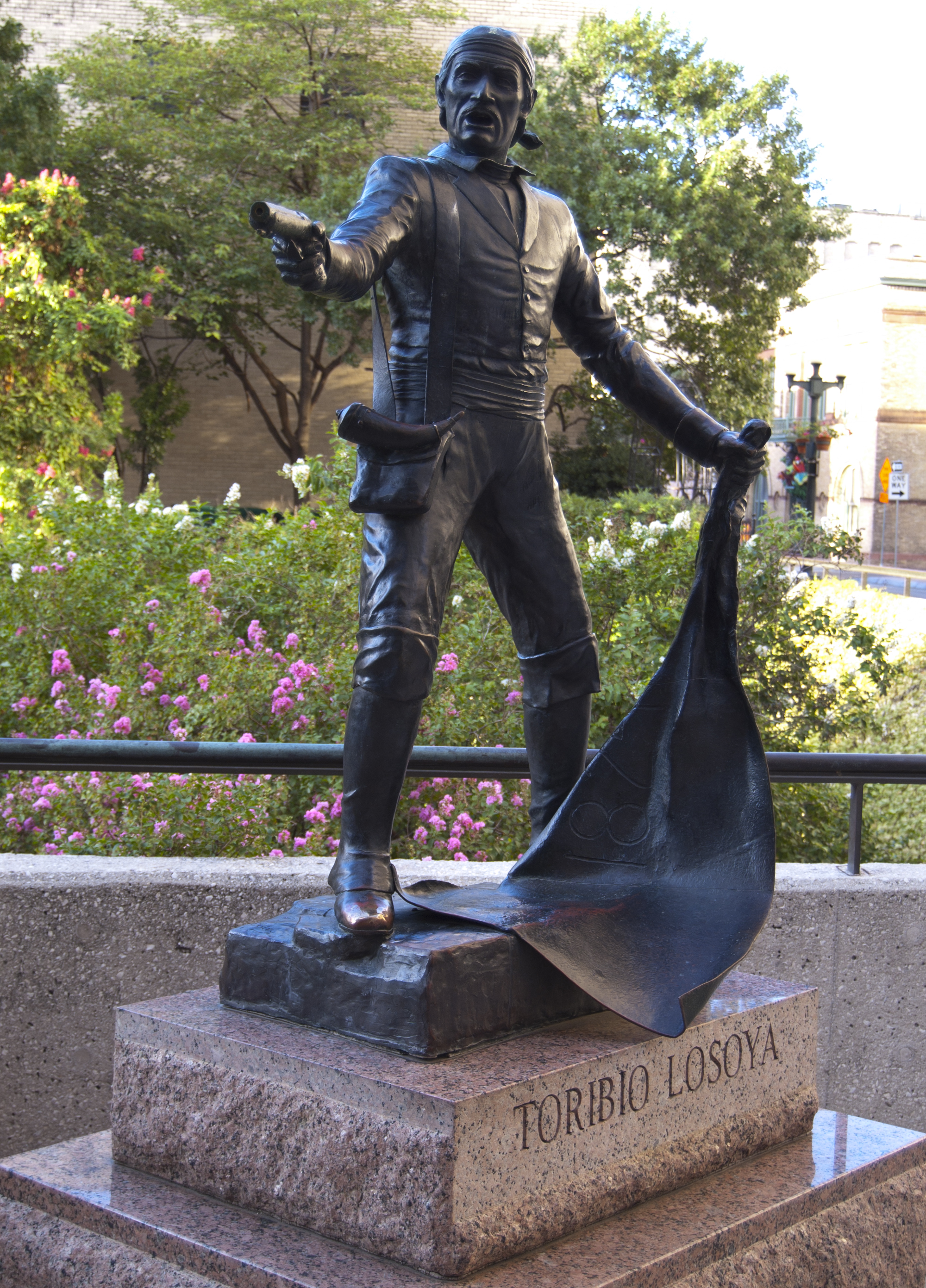 Photograph of statue of "An unsung hero of the Alamo" on Losoya Street in San Antonio, TX. Sculpture of Toribio Losoya by William Easley. A gift from Adolph Coors Company to the people of San Antonio and Texas, November 30, 1986.